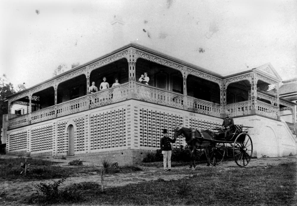 On the verandah at Miegunyah a residence in Brisbane 1886